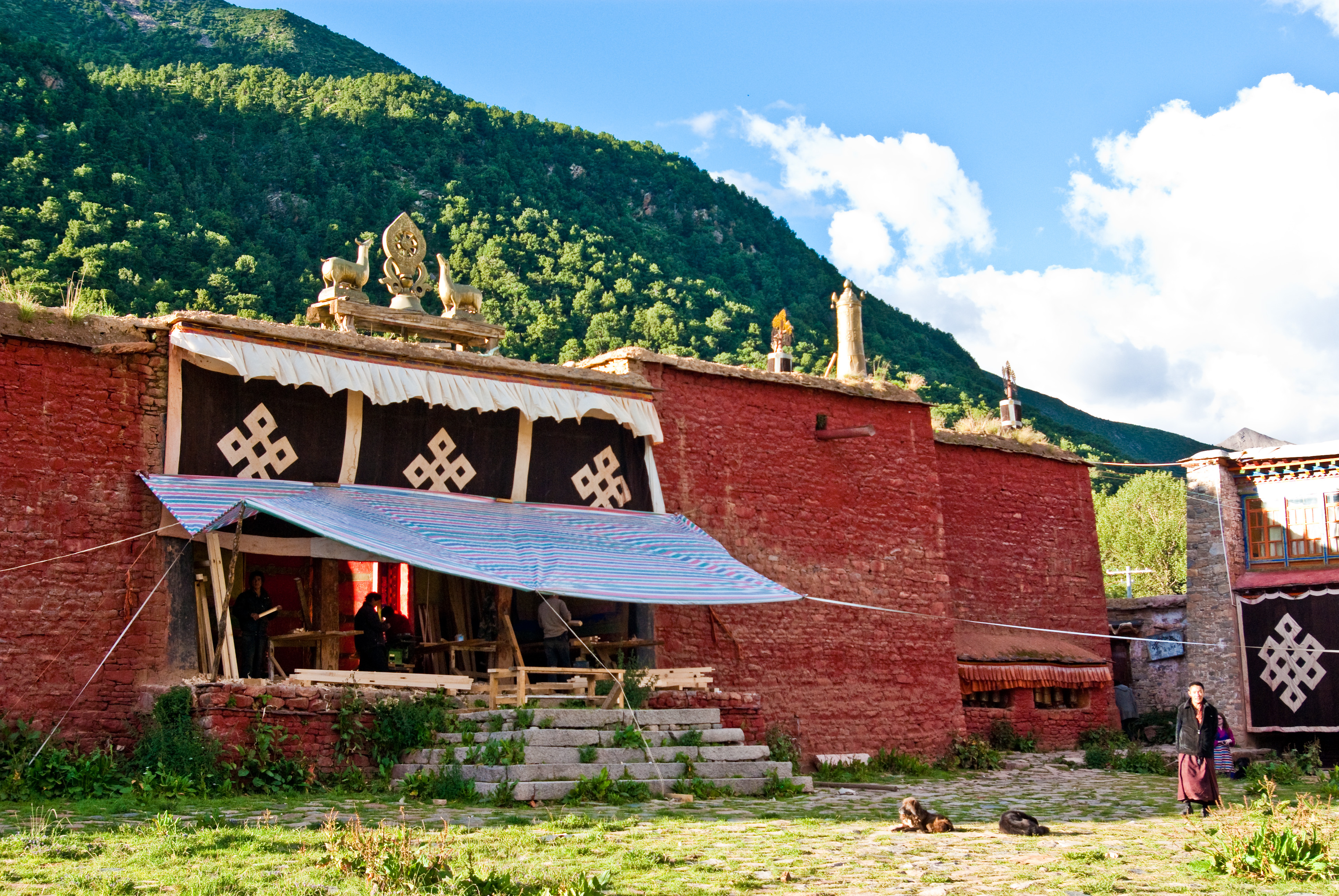 Reting monastery